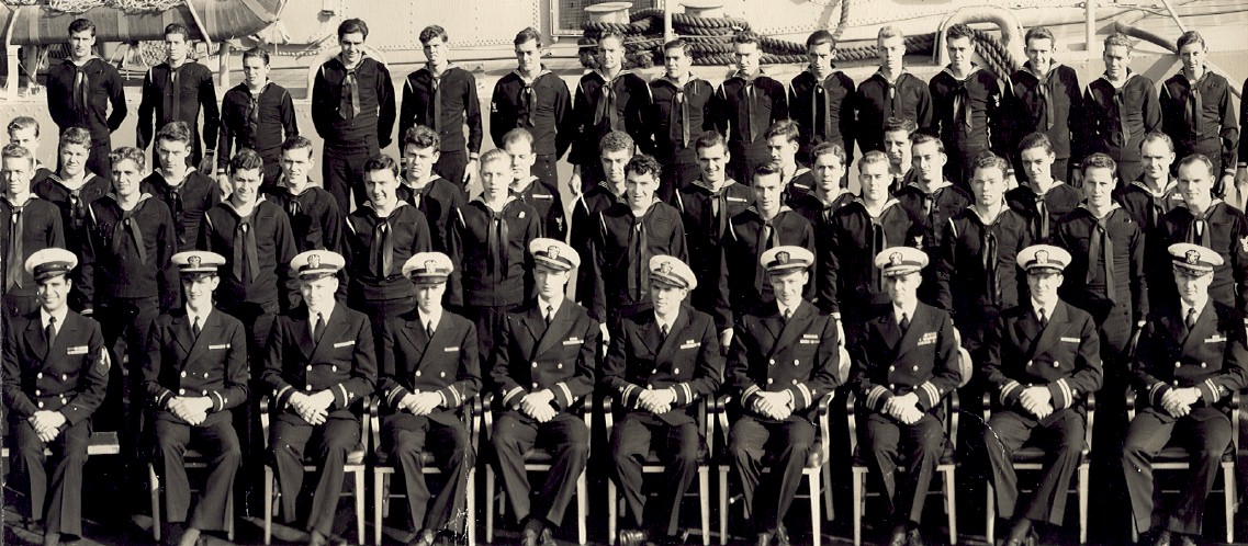 photograph of the crew of the USS Wadleigh DD-689 from 1945.